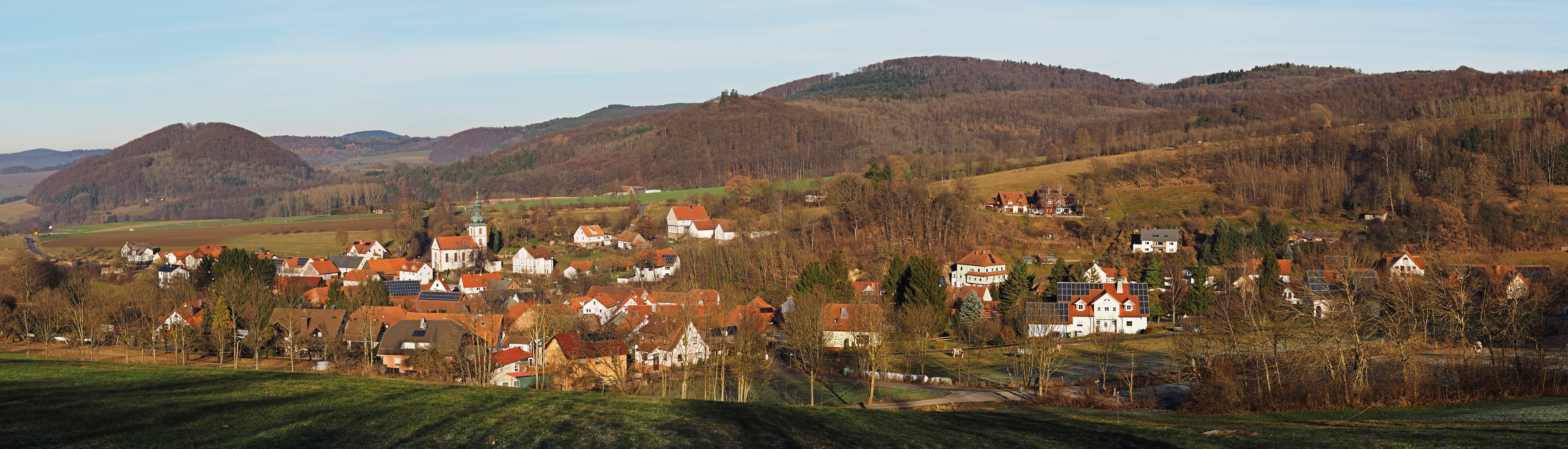 Kleinsassen village as seen from the south-west